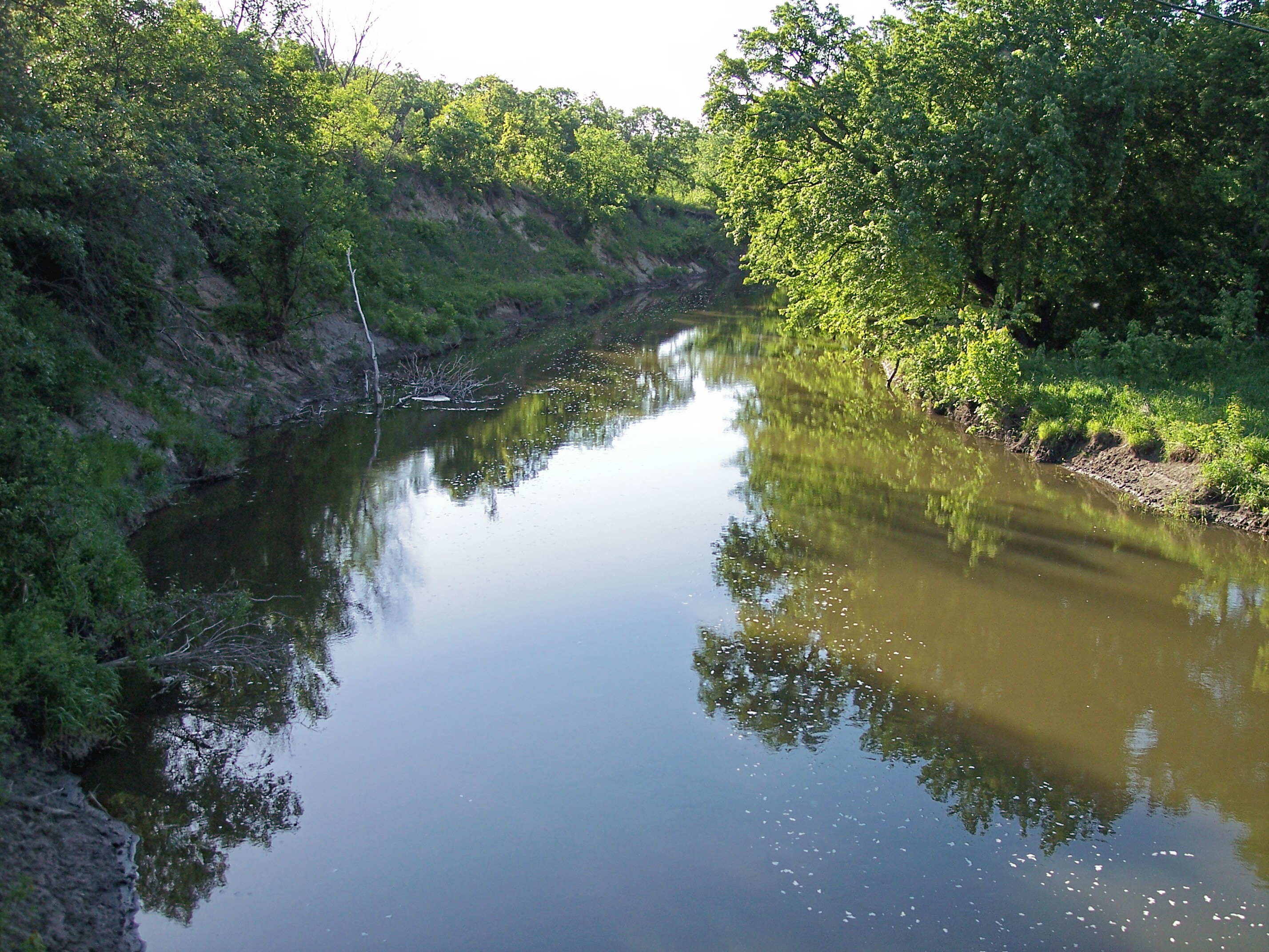 The Yellow Medicine River in Wood Lake Township, Minnesota, as viewed from County Road A9.